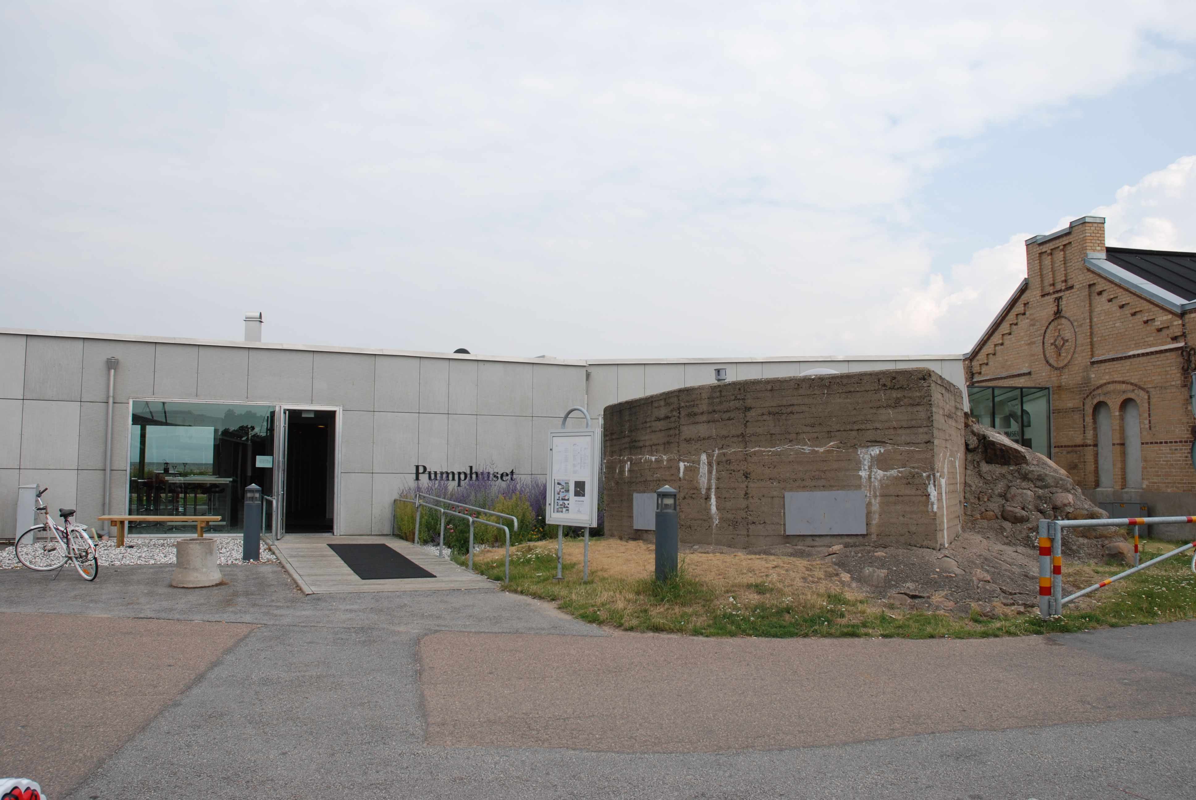 Pumphuset, Borstahusen, Landskrona